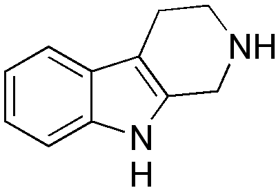 Chemical structure of tryptoline created with ChemDraw